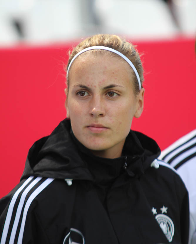 German international footballer Jennifer Cramer